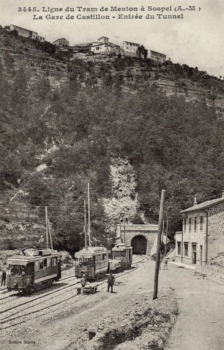 The station of Castillon on the former tramway line between Menton and Sospel (Alpes-Maritimes, France).